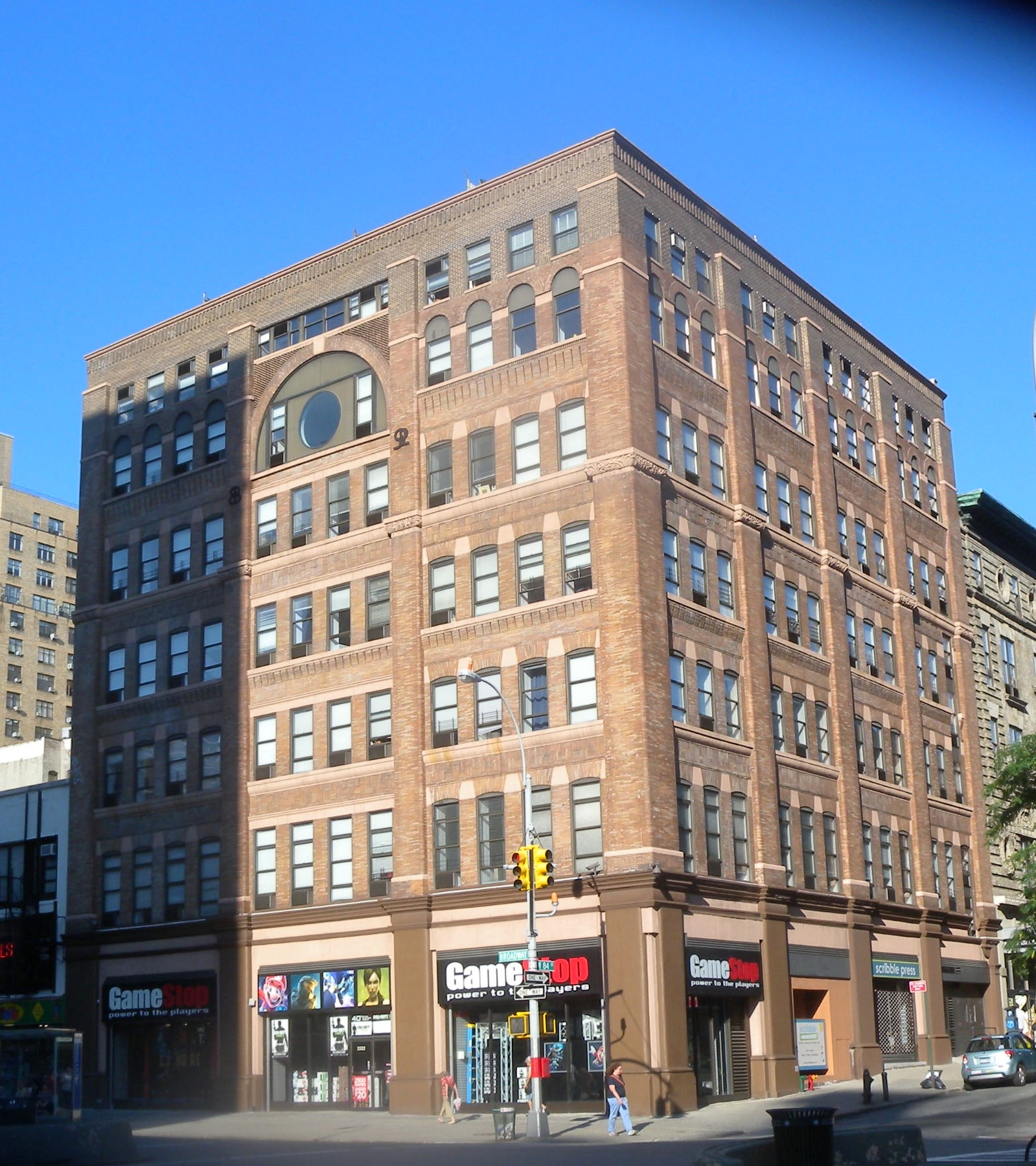 Looking east across Broadway and 84th Street at 232 Broadway, former Morris Brothers, now housing a Game Stop, on a sunny late afternoon.